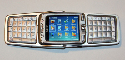 Nokia E70 cell phone opened